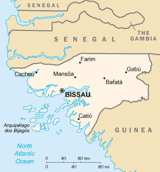 Map of Guinea-Bissau showing major cities